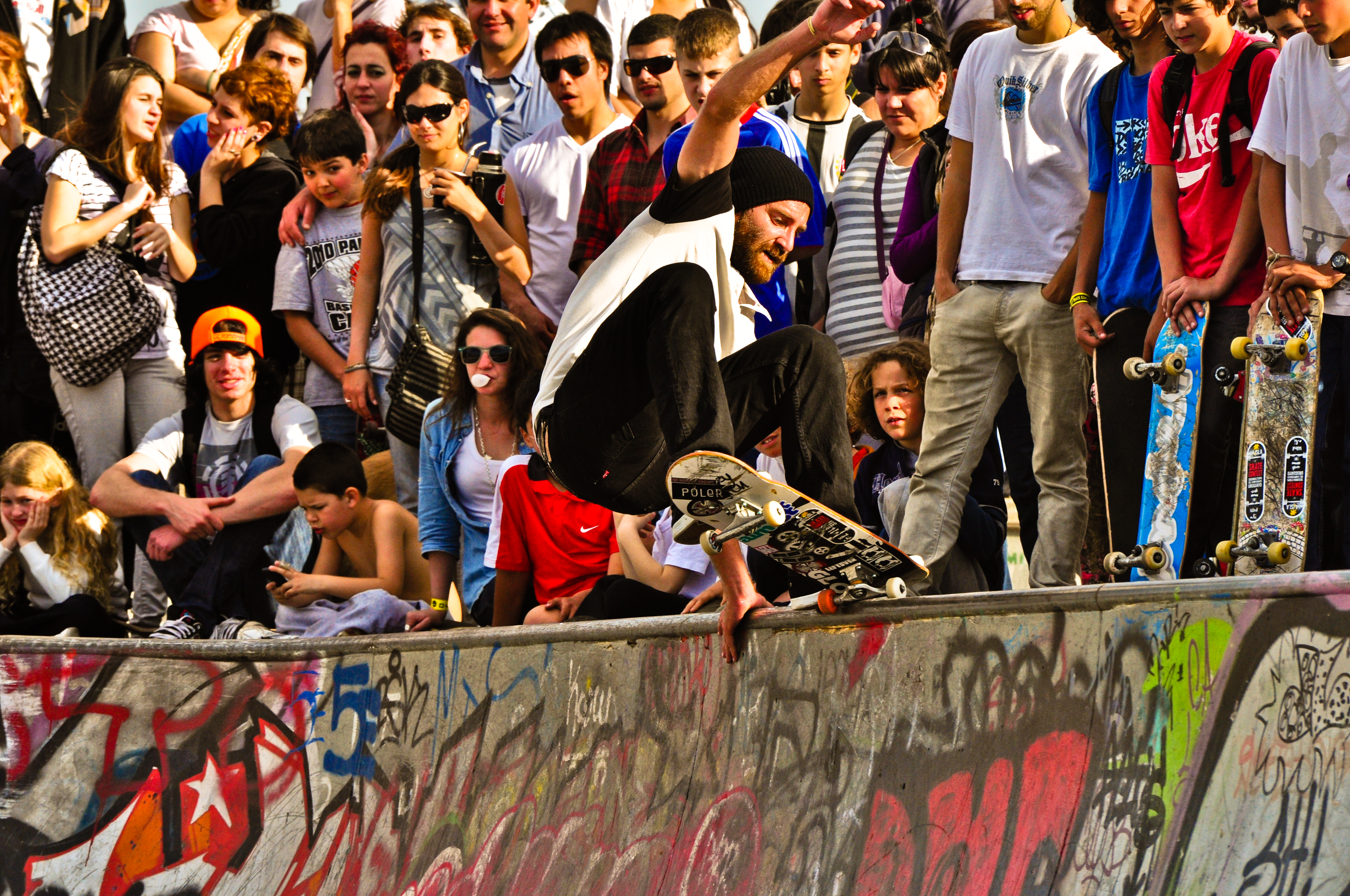 Canadian skateboarder Chris Haslam in Montevideo, Uruguay.